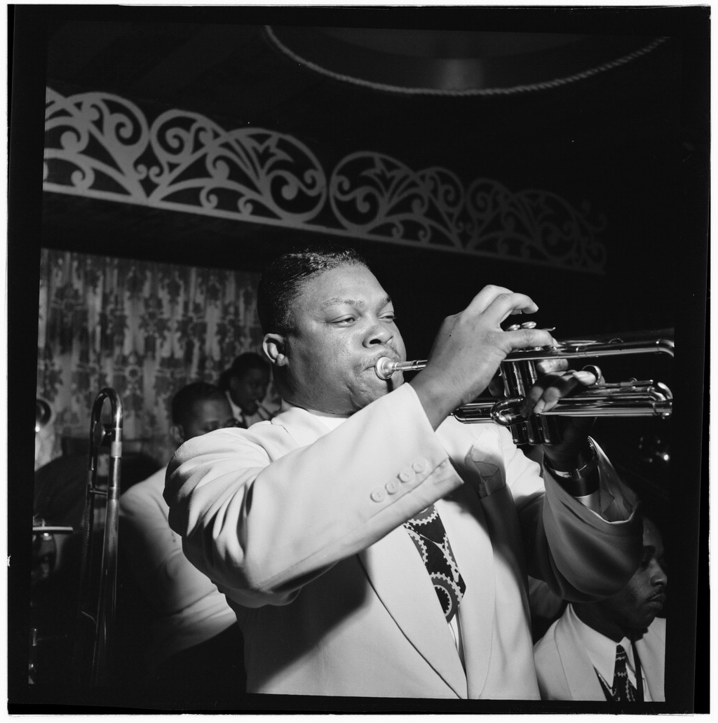 Cat Anderson